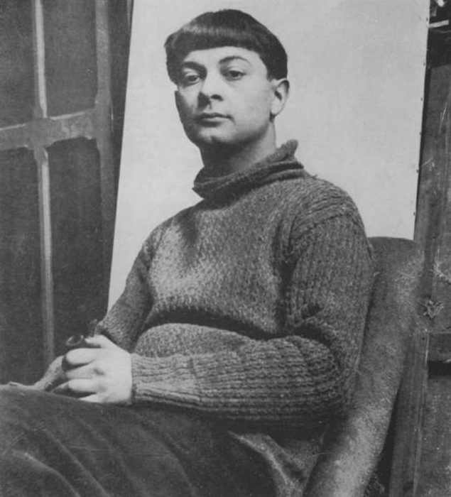 Portrait photograph of Moïse Kisling, c.1916